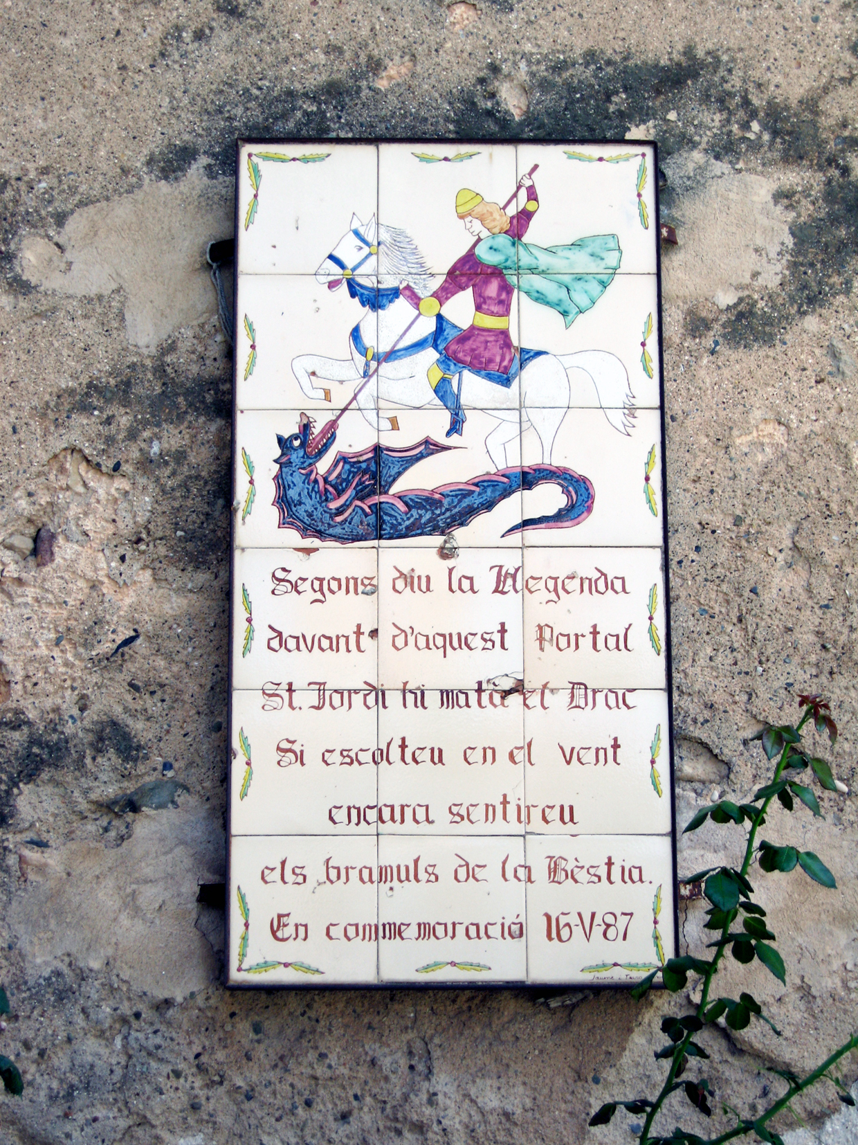 Detail of the Sant Jordi (Saint George) gate in Montblanc in the province of Tarragona (Catalonia).